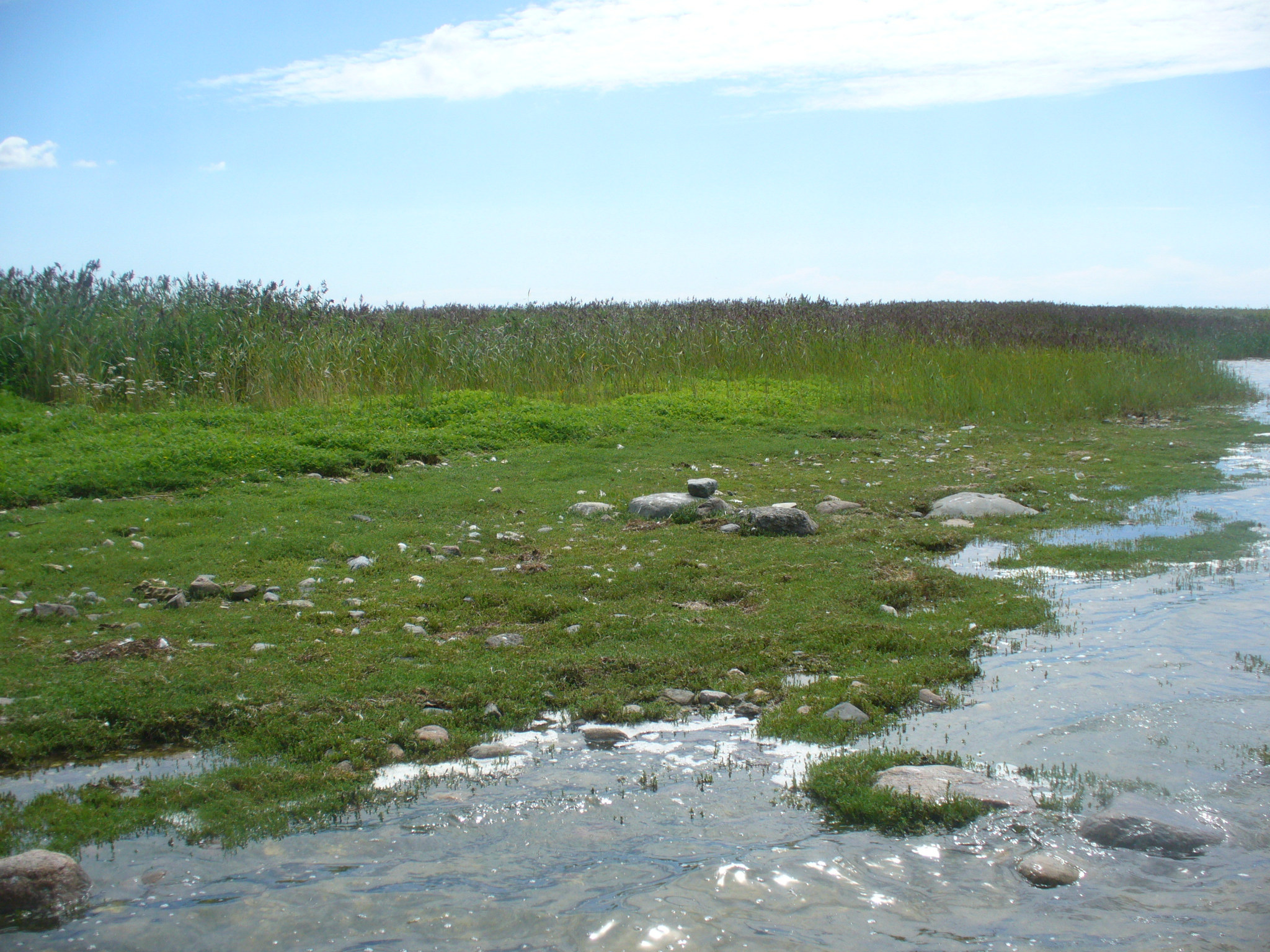 Sääri island near west coast of Muhu. View from north (or NE). Muhu commune, Saare County, Estonia.